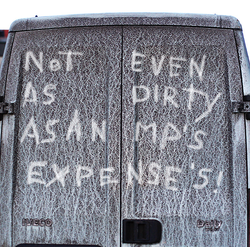 Day 106 of 365 next time I see a dirty van this is what I am going to write! you normally see the usual ones like 'clean me' and 'i wish my wife was this dirty' but here is a more modern and politically correct one lol